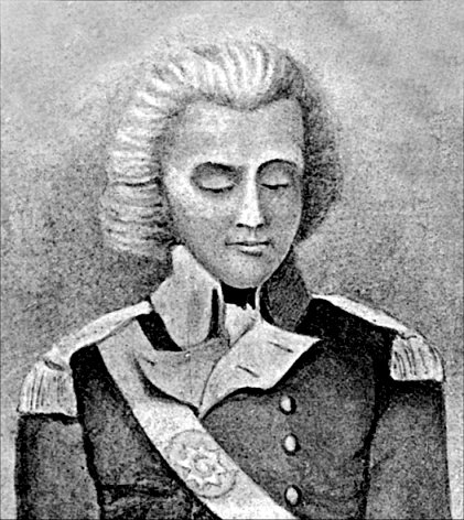 Portrait of Charles Stanhope, 3rd Earl of Harrington (1753-1829)